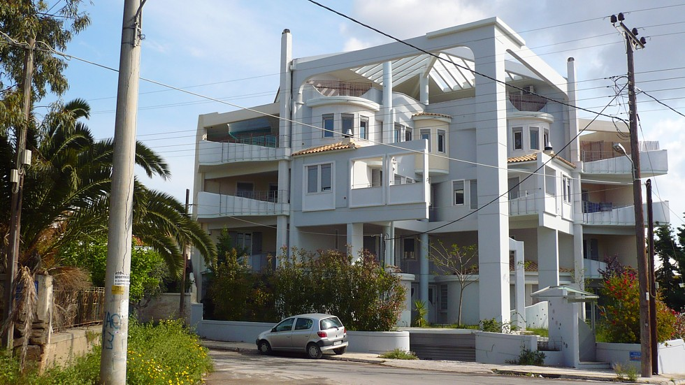 The Picture depicts the reconstruction at Spata.